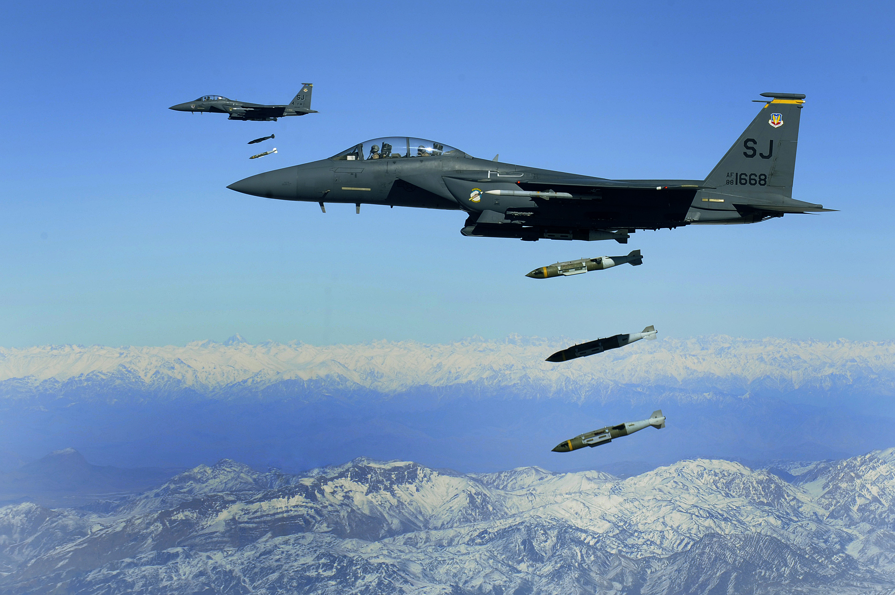 A U.S. Air Force F-15E Strike Eagle, from the 336th Expeditionary Fighter Squadron, drops 2,000-pound munitions on a cave in eastern Afghanistan, Nov. 26, 2009.